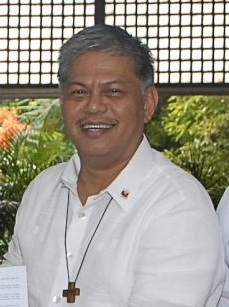 Armin Luistro in 2016